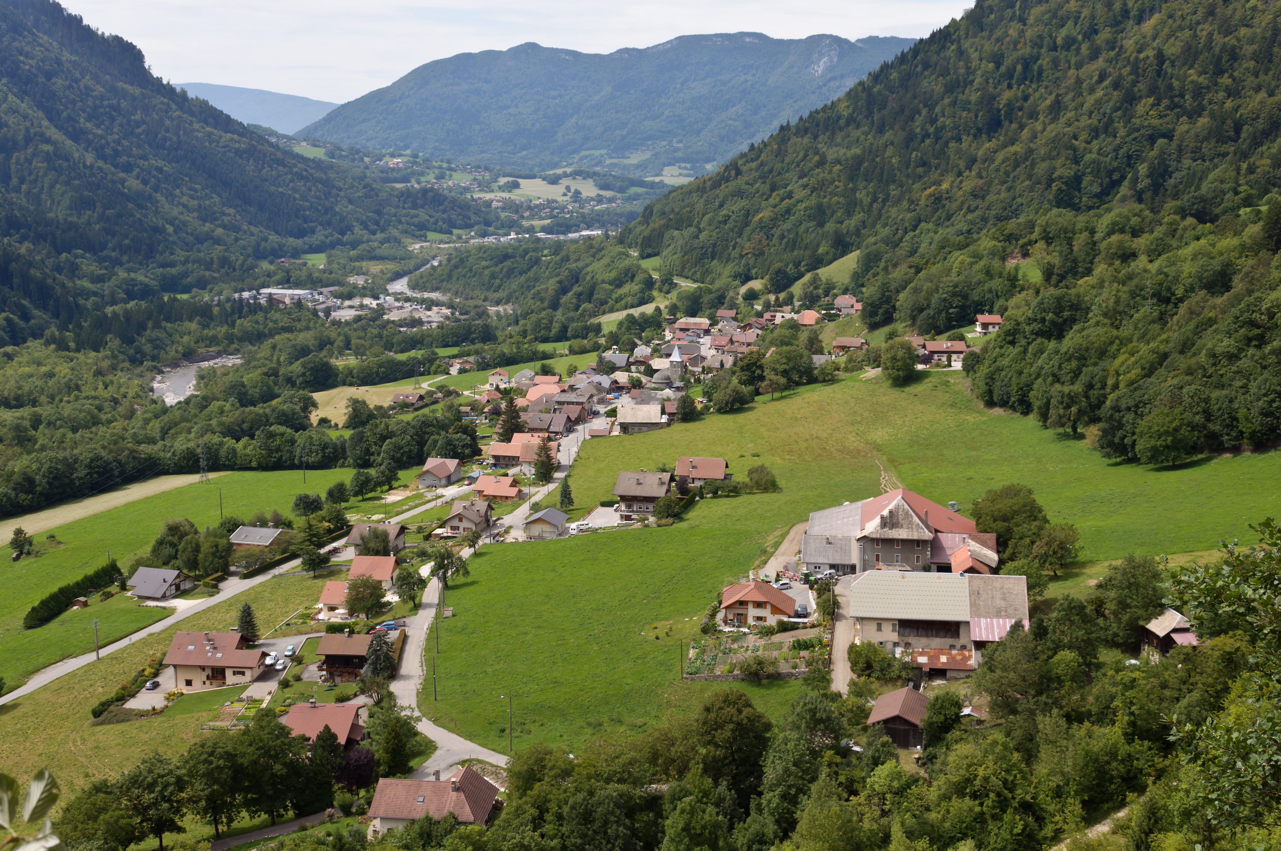 La Balme-de-Thuy along the Fier River in the Aravis, Haute-Savoie, France.